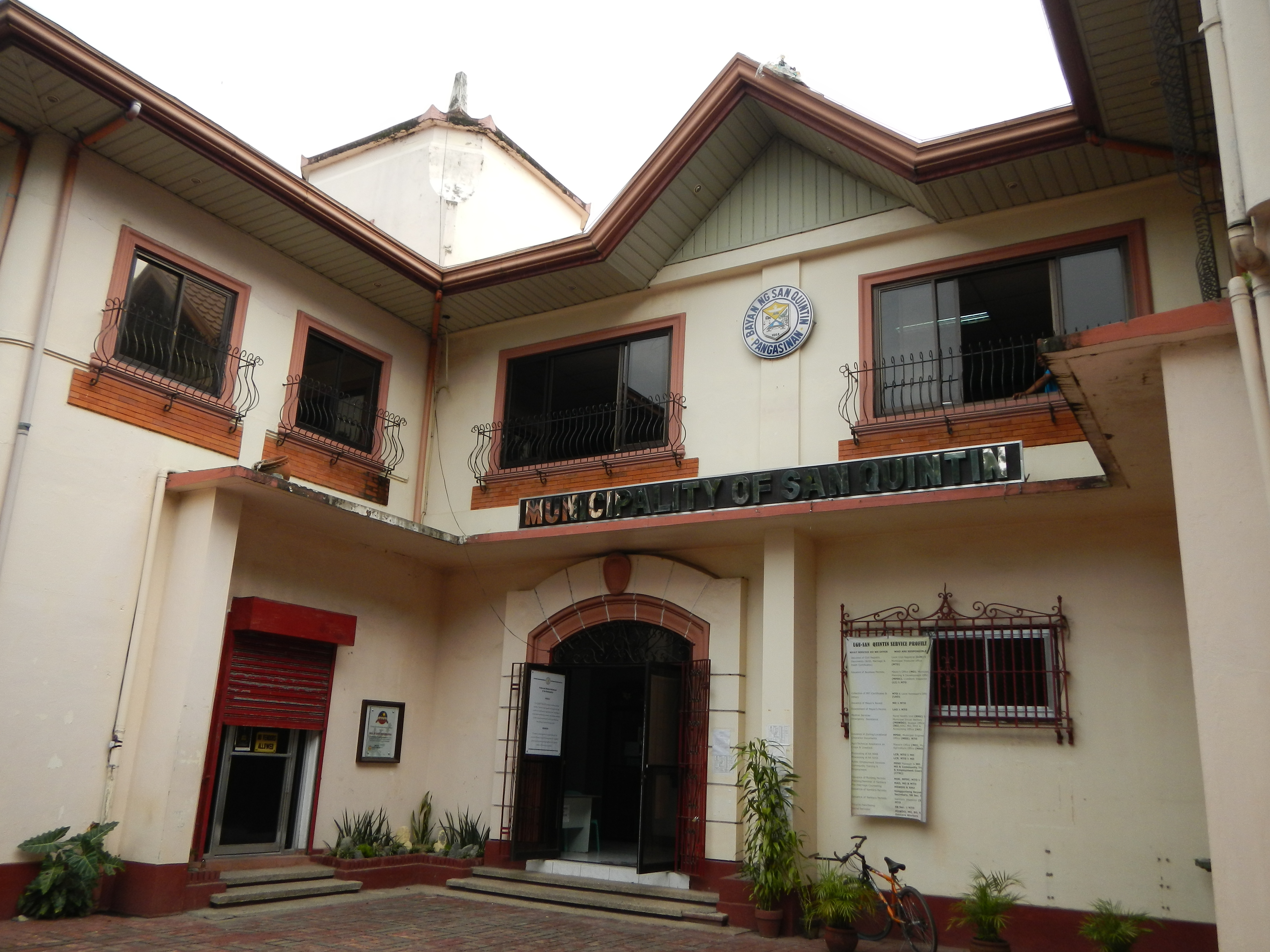 San Quintin Town Hall[1] Coordinates: 15°58'57"N 120°48'48"E and Municipal Offices, Police Station, Town Proper, downtown of - San Quintin, Pangasinan Website 2444 [2] is a third class municipality in the province of Pangasinan, Philippines. According to the 2010 census, it has a population of 32,626 people.[3] [4] Area: 115.90 km² Coordinates: 15°59'28"N 120°49'9"E ZIP Code: 2444 [5] This place is situated in Pangasinan, Region 1, Philippines, its geographical coordinates are 15° 58' 38" North, 120° 49' 20" East and its original name (with diacritics) is San Quintin - Dipalo Nature's Park and Picnic Grove -- Umingan, Pangasinan[6] Website (a first-class municipality in the province of Pangasinan[7], Philippines. According to the 2010 census, it has a population of 67,534 people. Land Area: 258.43 km² [8] Coordinates: 15°53'31"N 120°49'7"E ZIP Code: 2443.